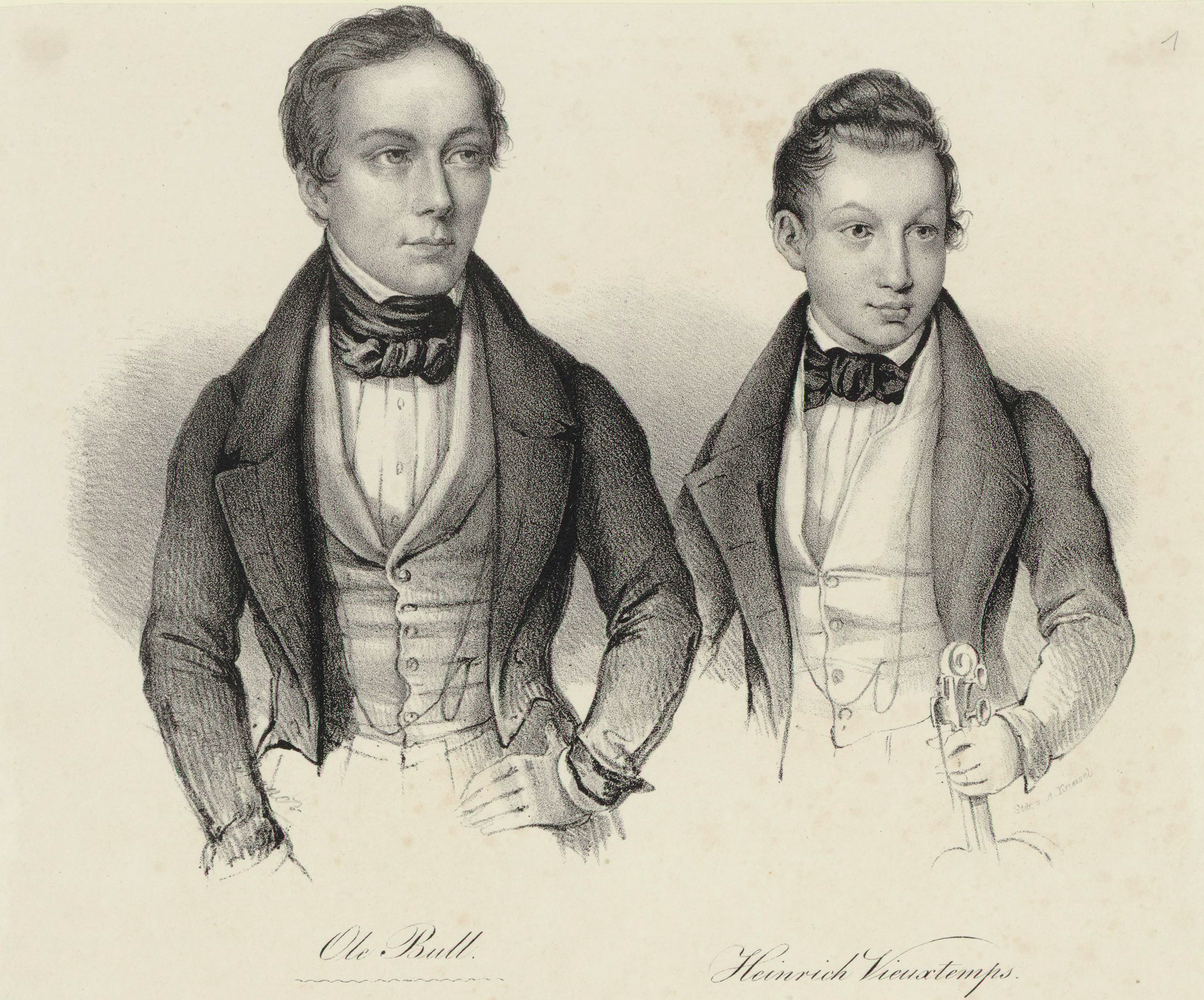 Ole Bull (left) and Henri Vieuxtemps